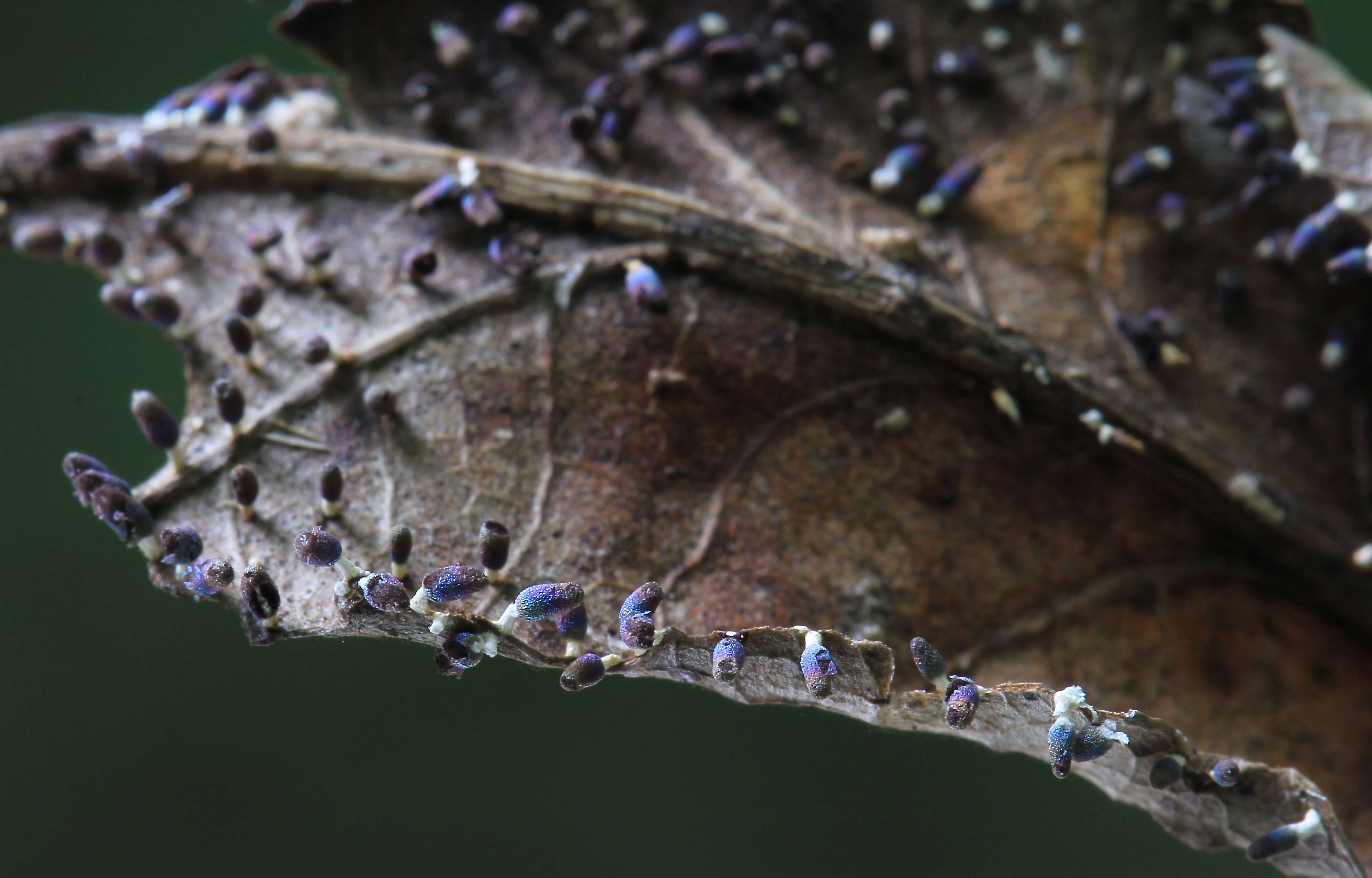 Diachea leucopodia sporangia growing on a dead oak leaf, taken in Wormley Wood, Hertfordshire, UK.